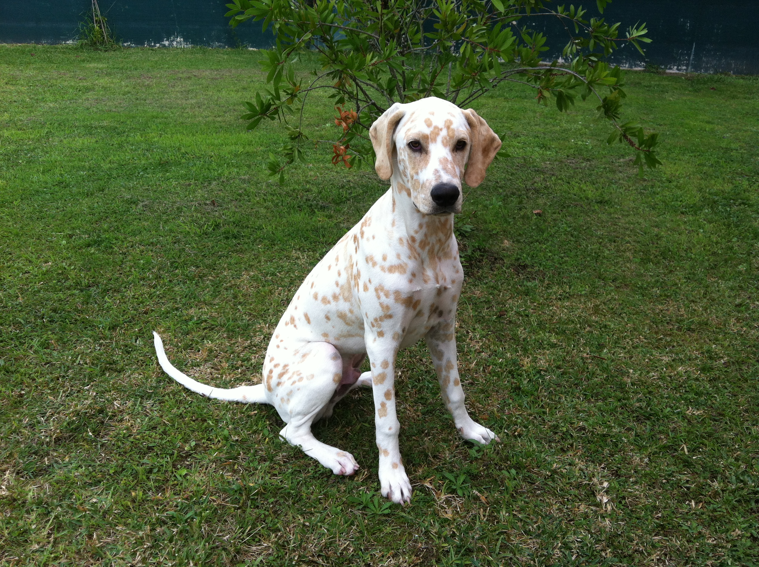 Lemon dalmatian